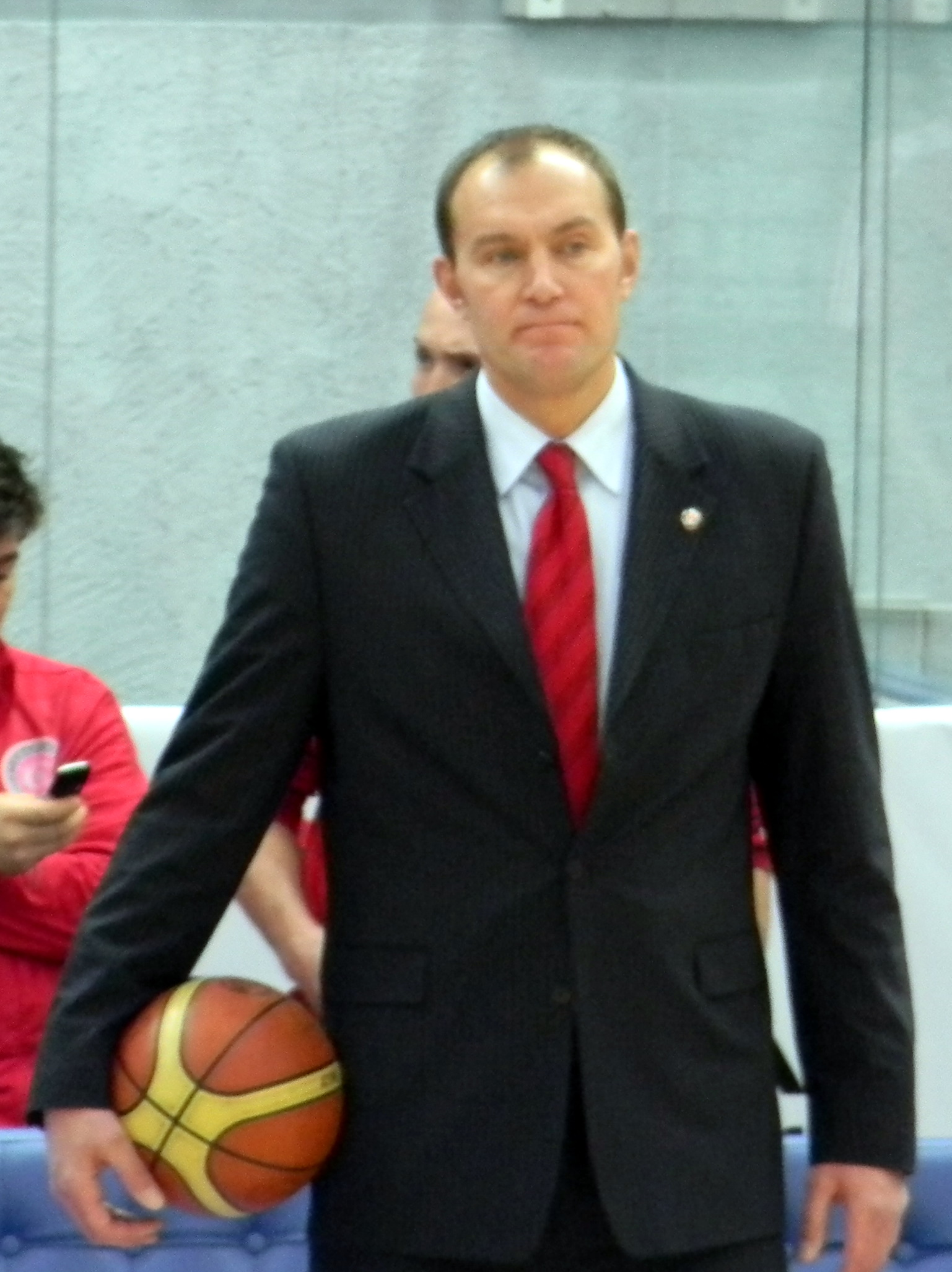 Sergei Grishayev, russian basketball coach from Spartak Saint-Petersburg in the game against BC Nizhny Novgorod on March 19th, 2011